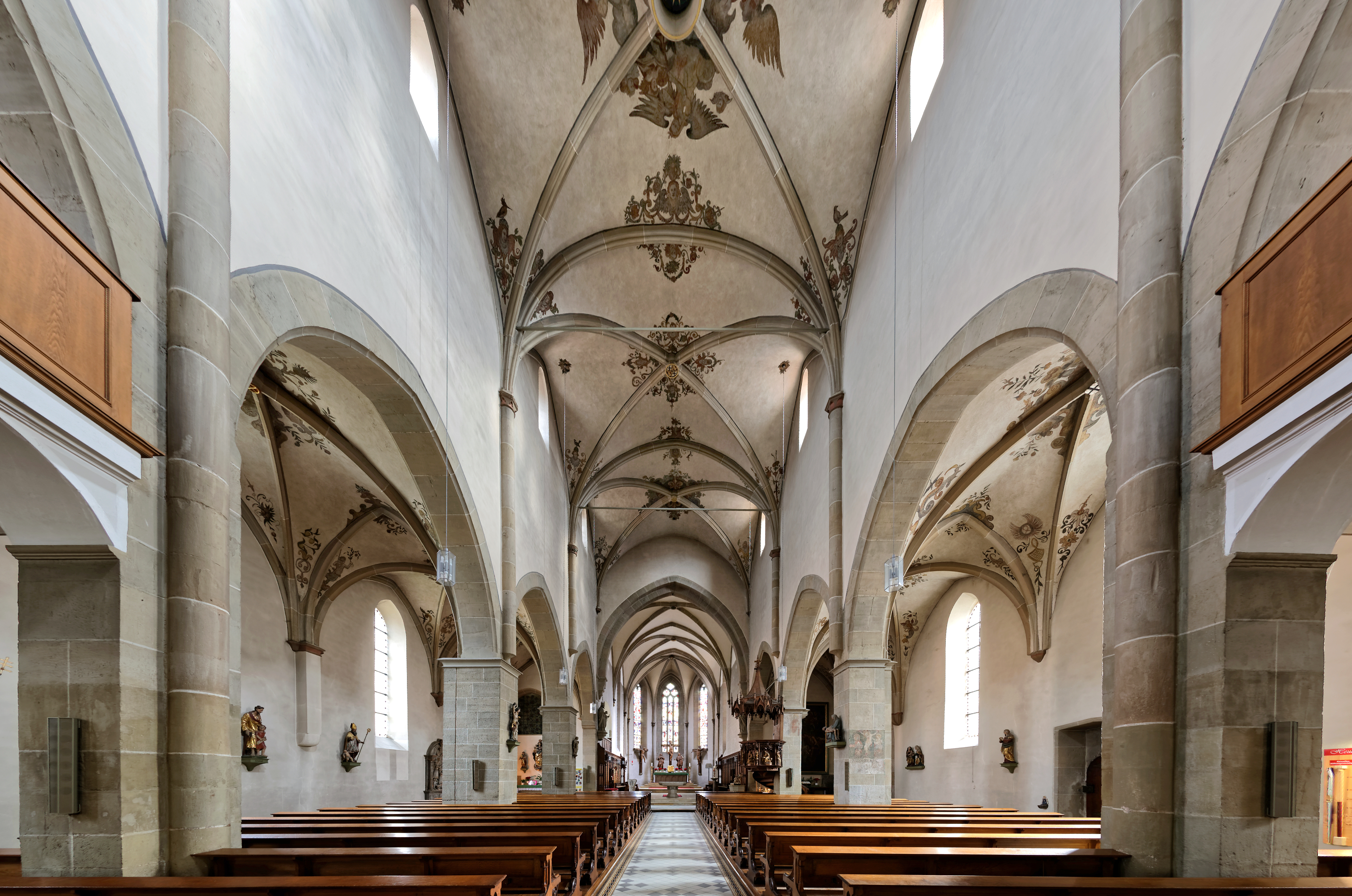 The Cathedral of St. John in Bad Mergentheim.